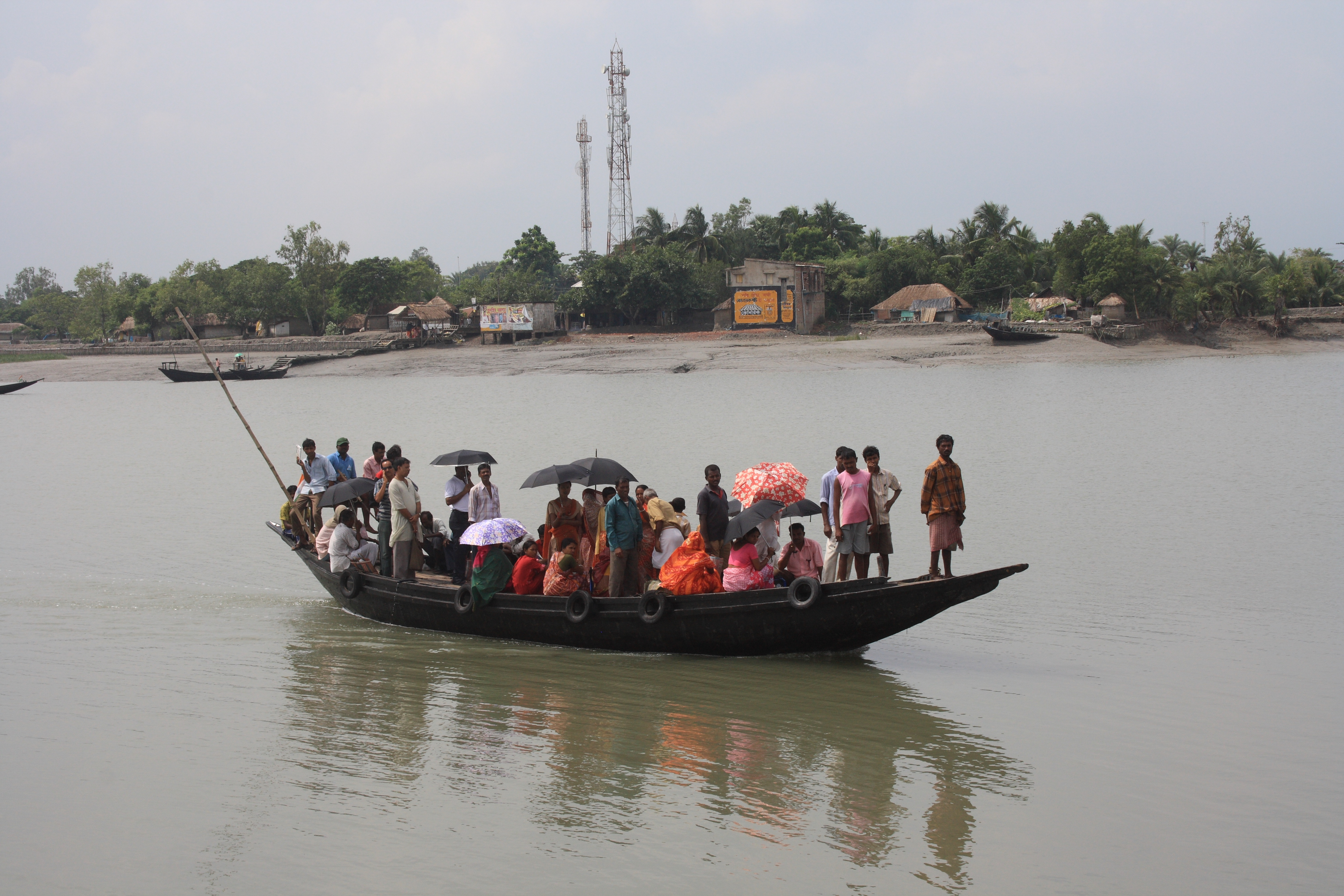 A ferry crossing a branch of River Ganges at Lebukhali connecting two islands. Passengers wear umbrellas against the sun. The wooden boat features a loudly chugging engine with an intgrated bilge pump.